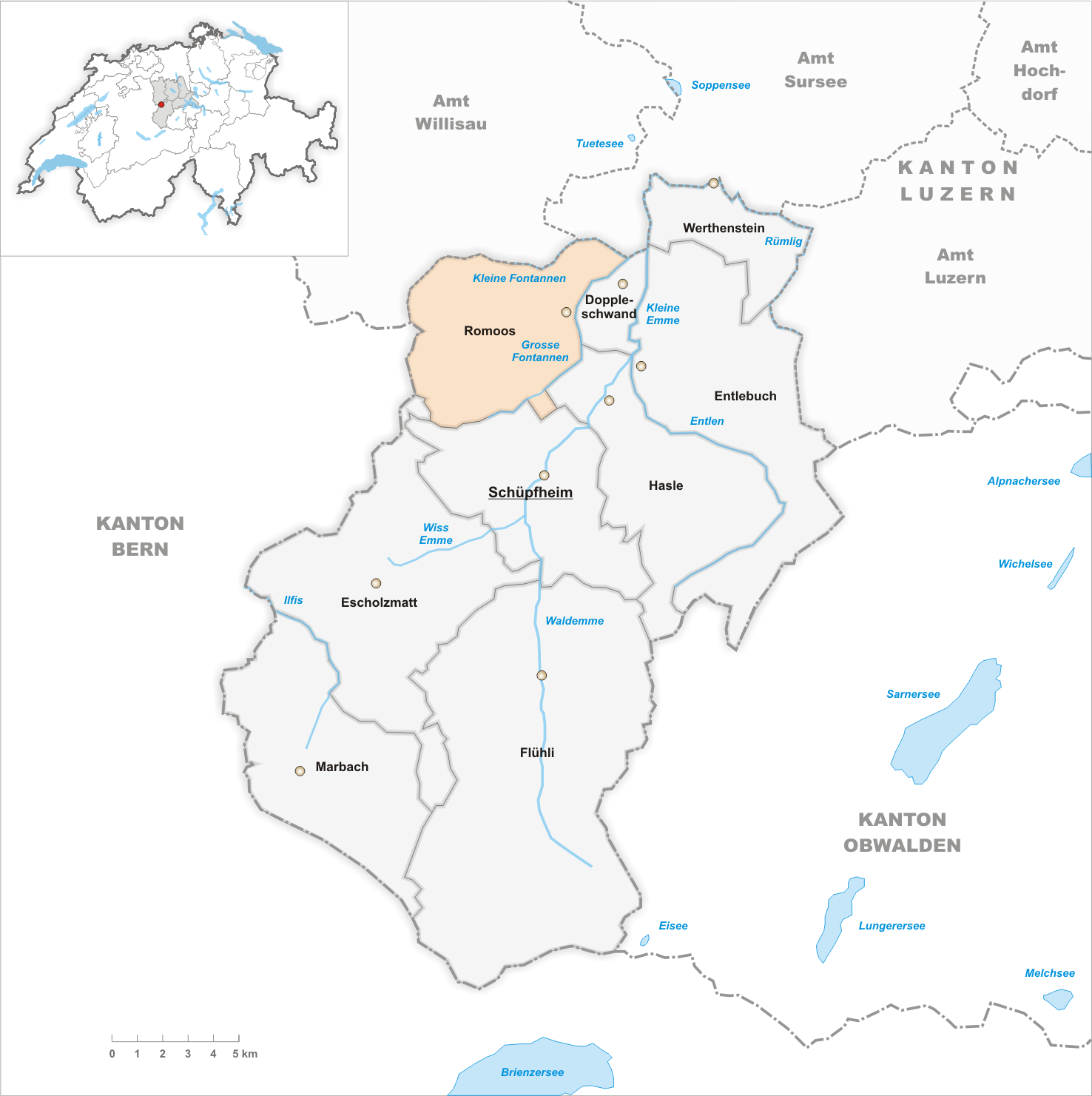 Municipality Romoos